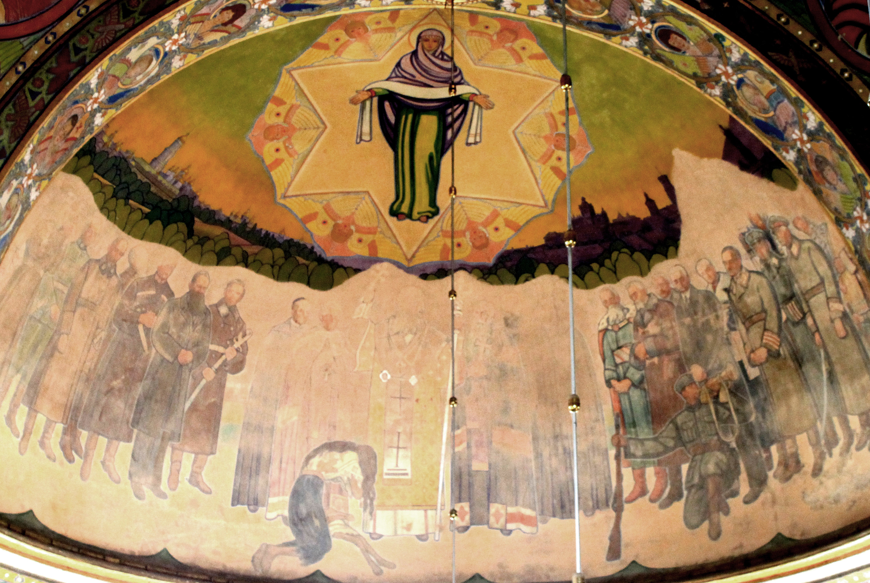 Покрова. Герої визвольних змагань